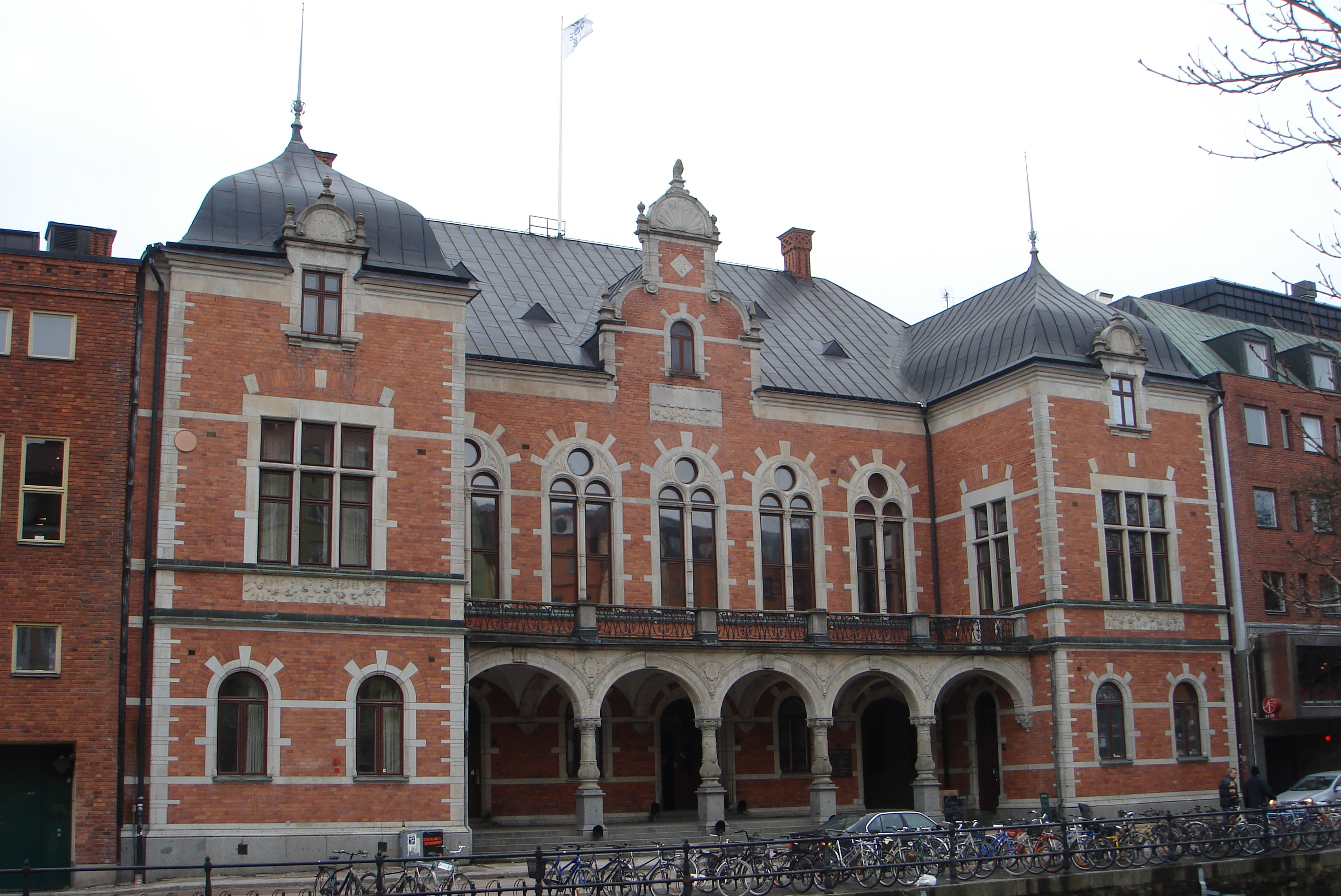 Norrlands nation